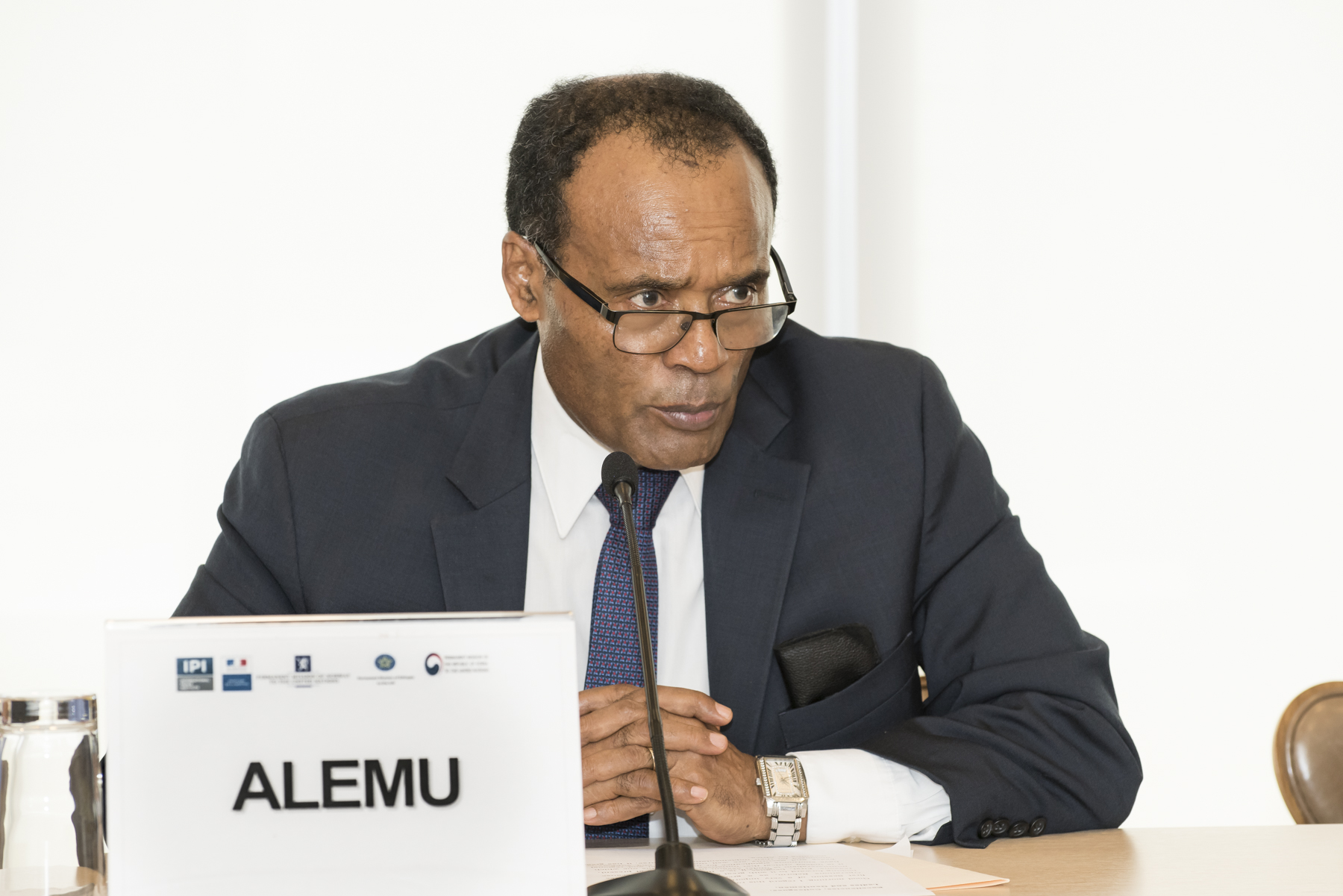 Tekeda Alemu, Permanent Representative of Ethiopia to the UN